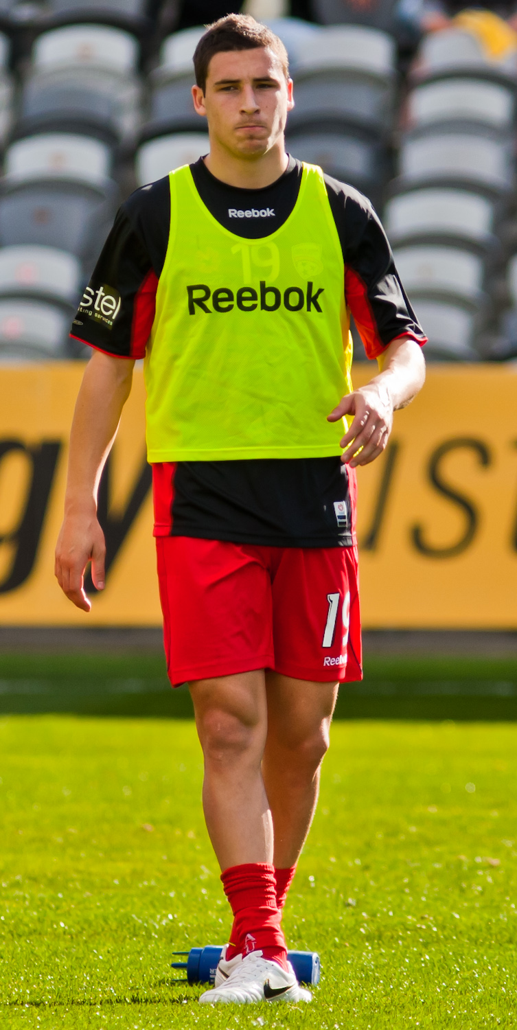 Mathew Leckie warming up with Adelaide United before an A-League Round 2 game against the Central Coast Mariners.